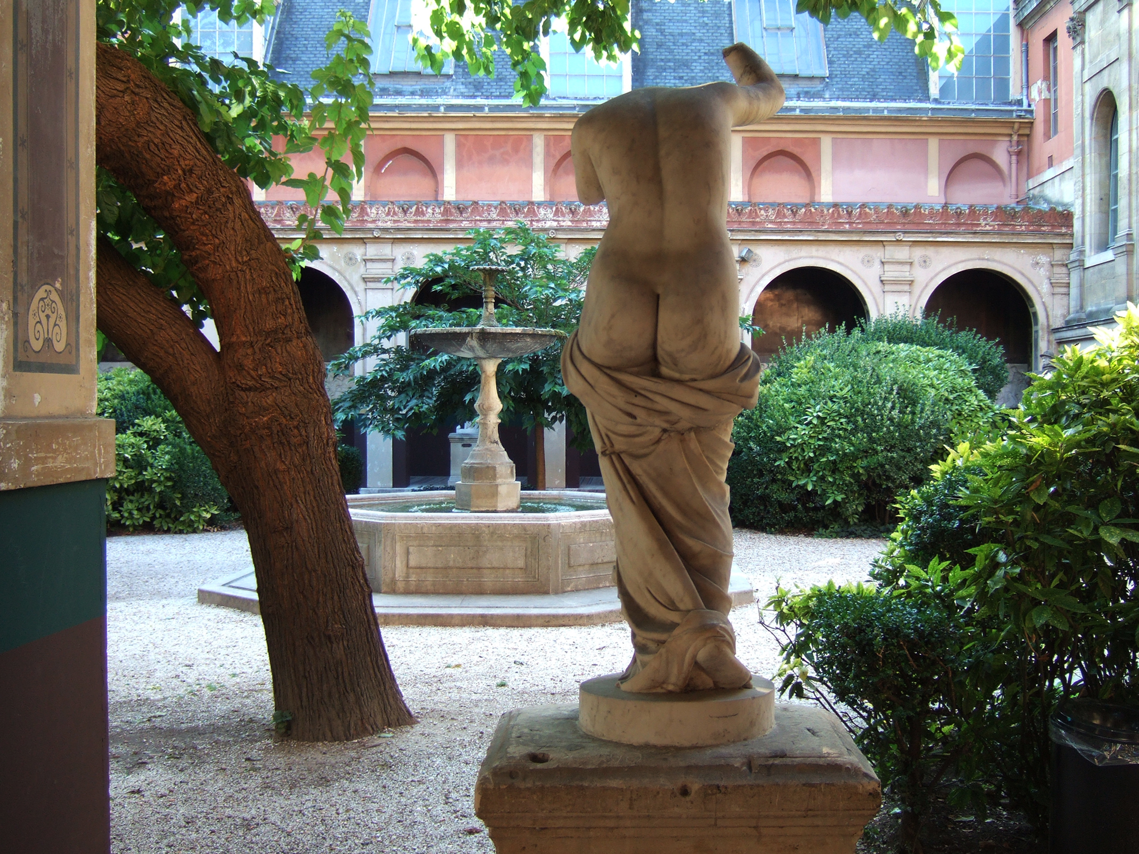 Ecole Nationale Superieure des Beaux-Arts, Paris, ENSBA, cour du murier